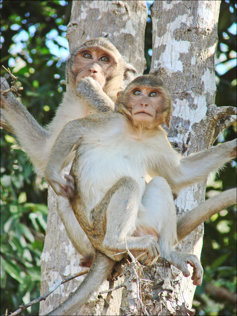 Crab-eating macaques (Macaca fascicularis) in Angkor Wat complex, Cambodia